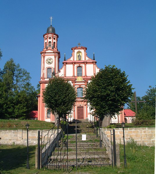 Church of St Mary Magdalene in Mařenice, Bohemia, Lusatian Mountains, Czech Republic